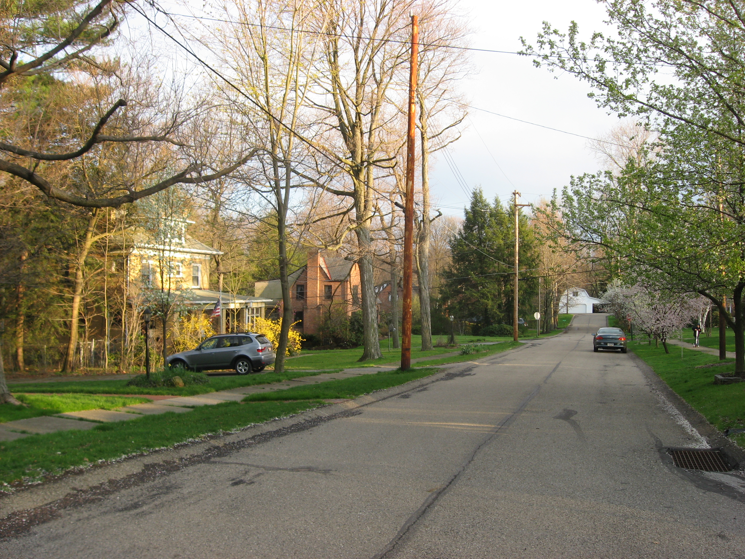 Streetside along Fourth Avenue near the Fifth Street intersection in Patterson Heights, Pennsylvania, United States.